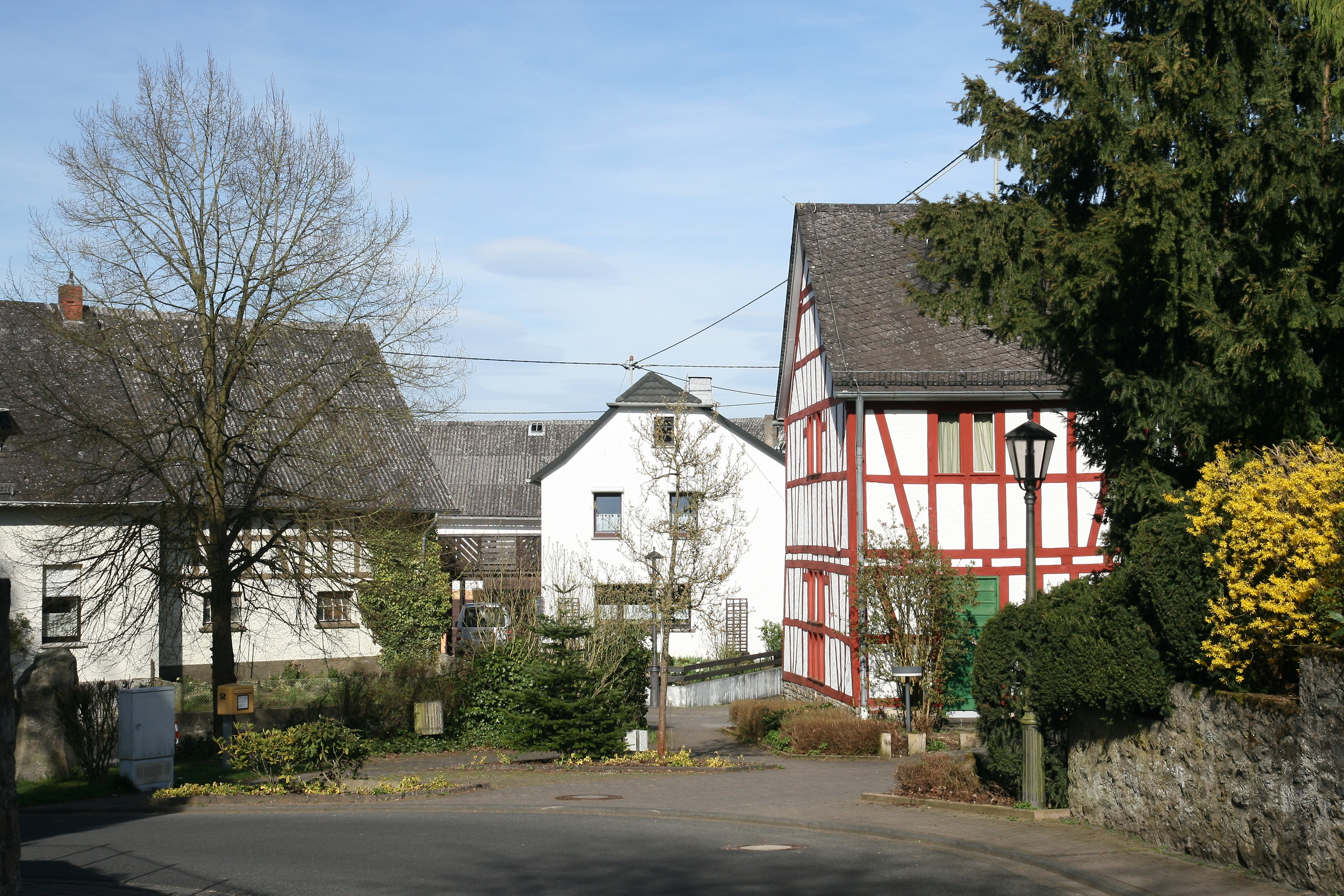 Village view in Nordhofen, Westerwald, Germany. View to Hauptstraße/Schulstraße junction with a small square